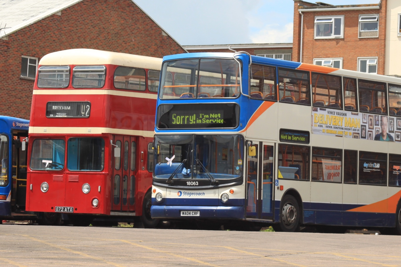 Exeter double-decker uses from two different eras meet up in Belgrave Road Depot. On the right is a modern Stagecoach South West vehcicle (fleet number 18063, an ALX400 registered WA04CRF in 2004). On the left is preserved Devon General 872 (a Leyland Atlantean registered 872ATA in 1959).